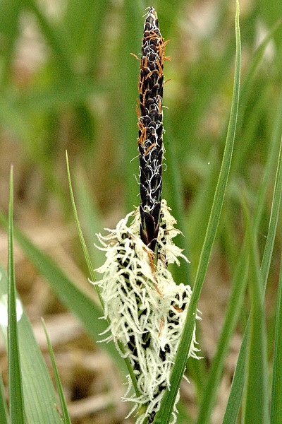 Carex nigra from Commanster, Belgian High Ardennes .